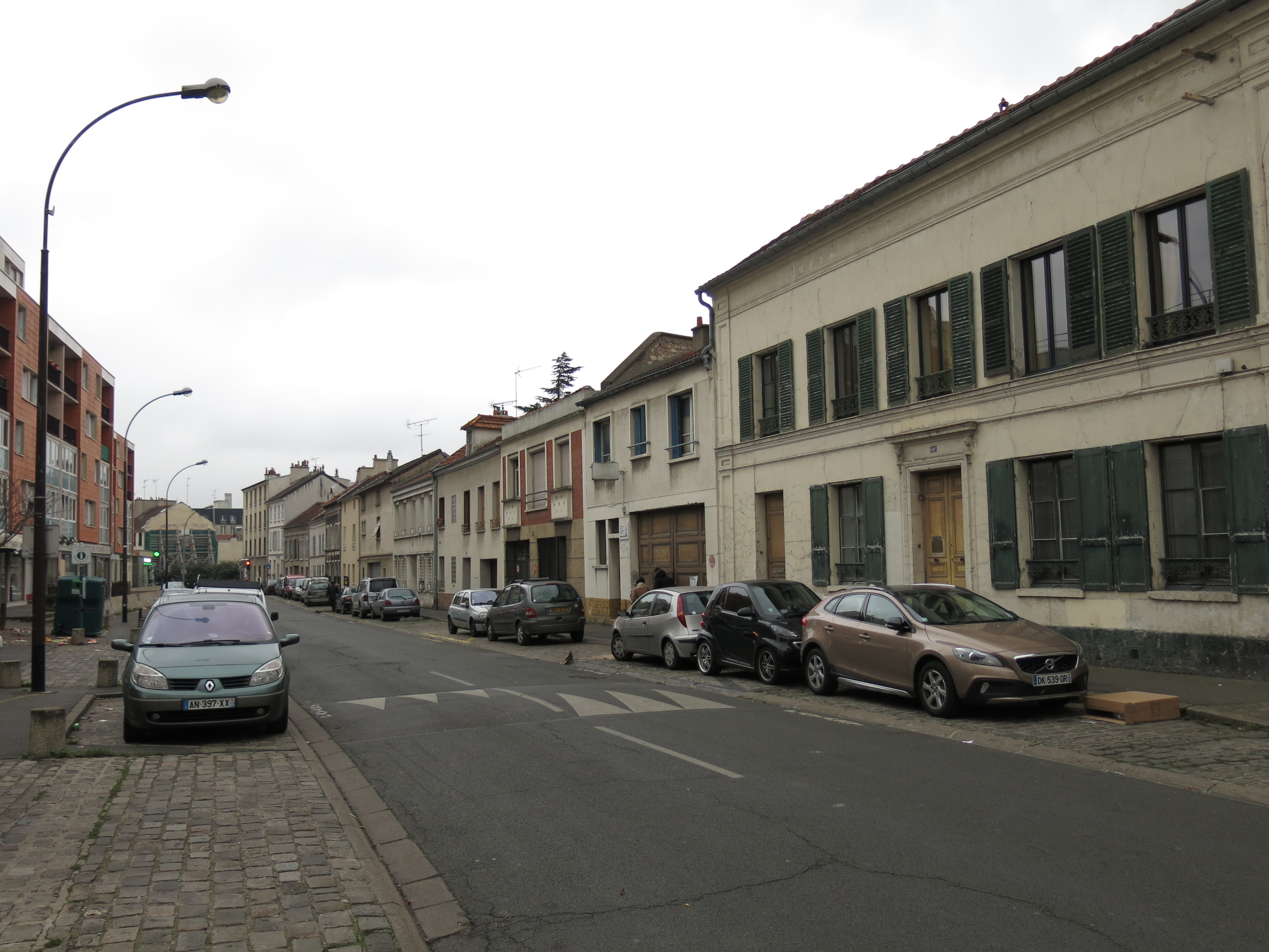 Street Alexis Lepère in Montreuil (Seine-Saint-Denis, France).